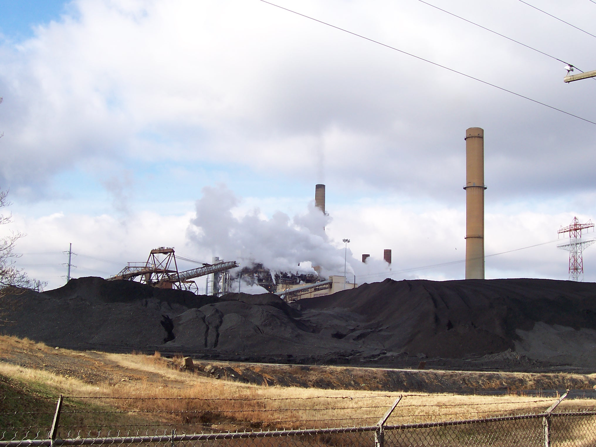 Dominion Resources' coal fired power plant located in central Virginia, USA beside the James River at Dutch Gap.